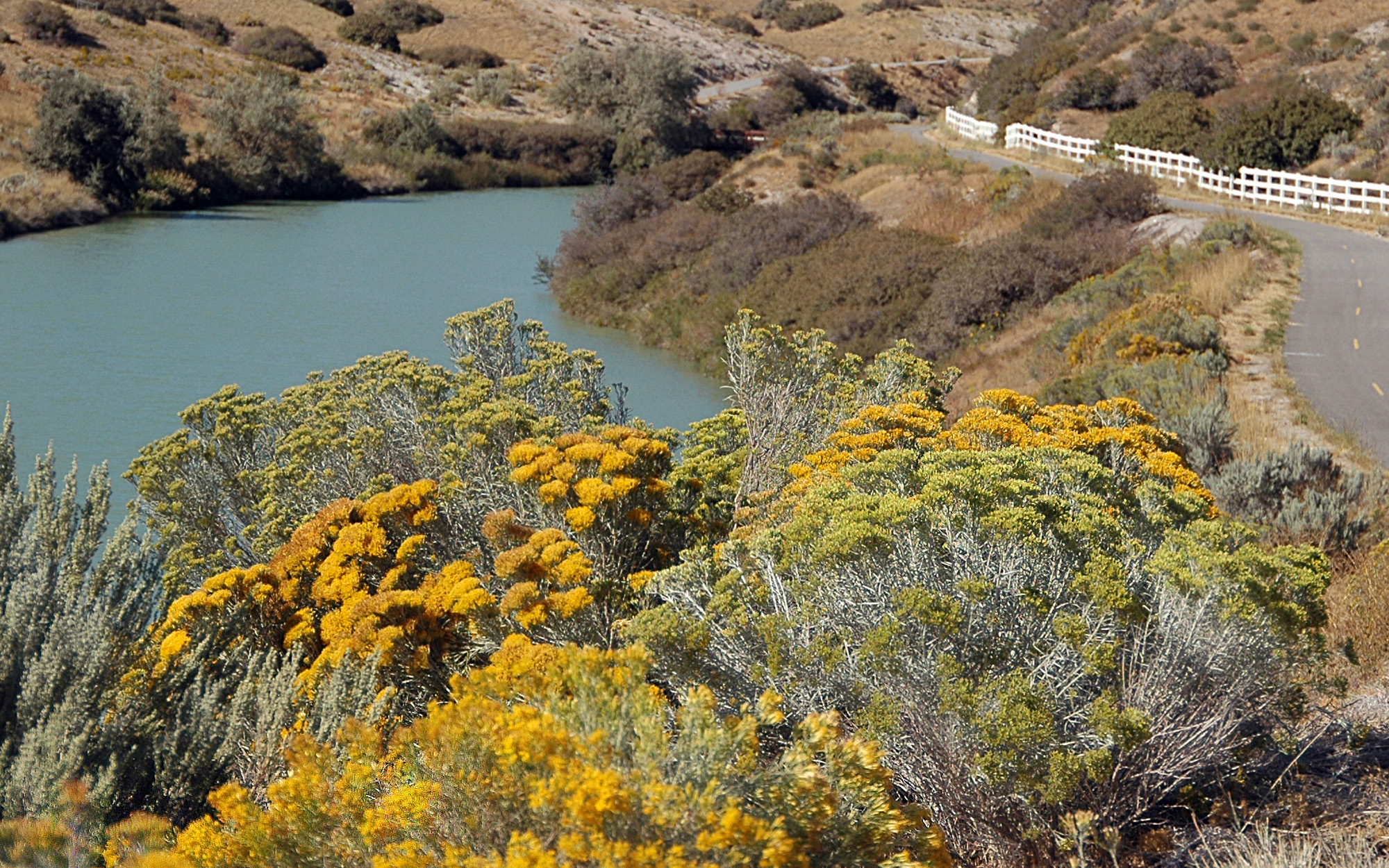 Rubber rabbitbrush along Jordan River Parkway near Salt Lake City, Utah